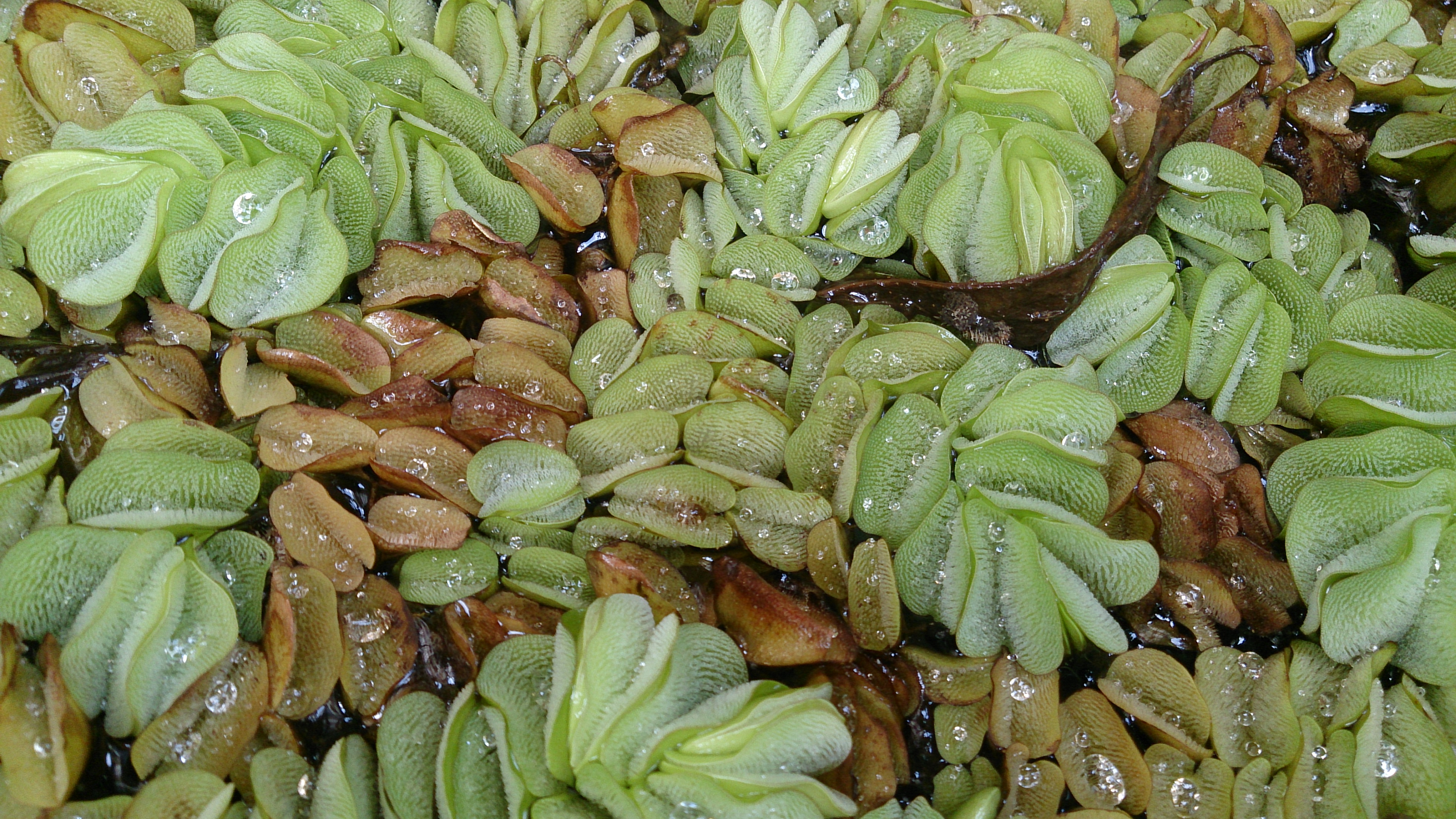 Salvinia adnata. Common names: Water Spangle, Giant Salvinia, Aquarium Watermoss. 槐叶苹 (Chinese).